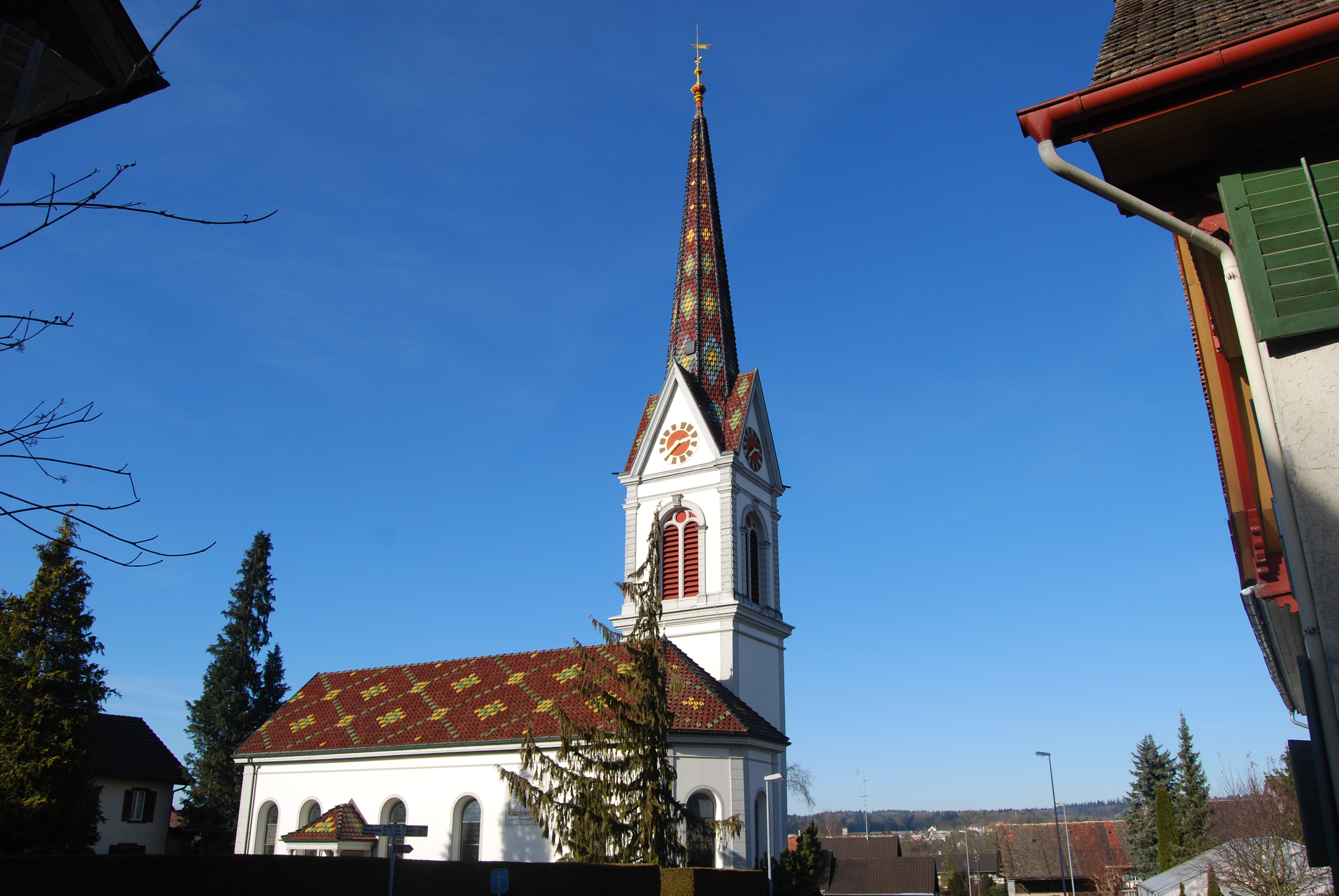 Church of Hugelshofen, municipality of , canton of Thurgovia, Switzerland